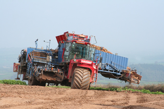 Brompton Ralph: Horsch beet crop harvester seen on the hill above and to the south of Broadway Head Farm